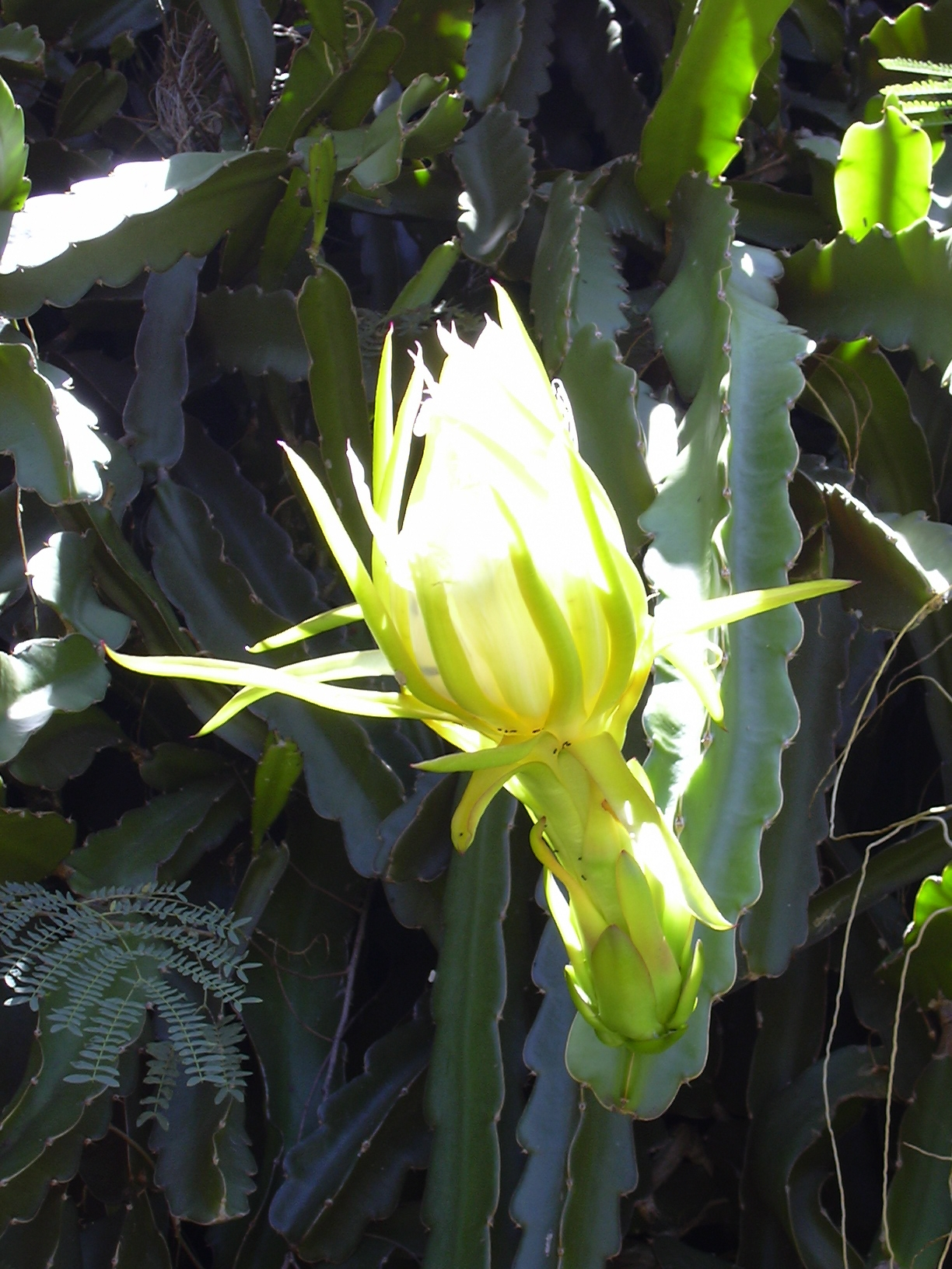 Hylocereus undatus (flower). Location: Maui, Baldwin Ave